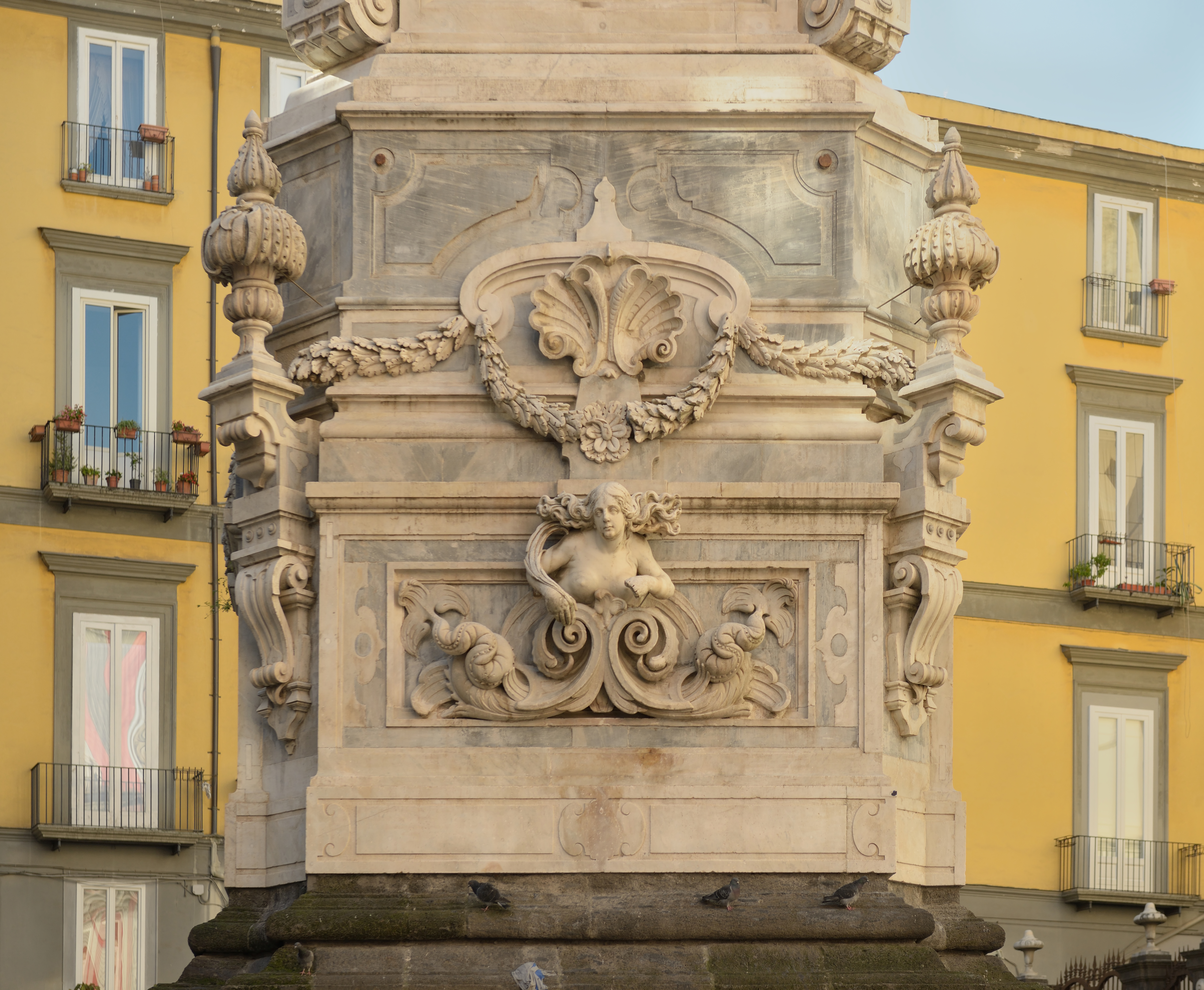 Base of the spire of San Domenico Maggiore in Naples.